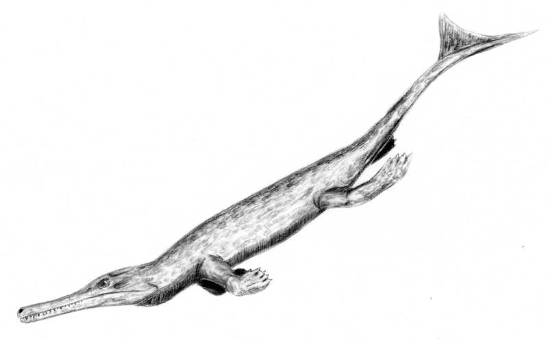 Teleidosaurus, pencil drawing. Teleidosaurus was the most plesiomorphic genus of marine crocodyliform within Metriorhynchidae, and is known from the Bajocian and Bathonian of the Middle Jurassic.